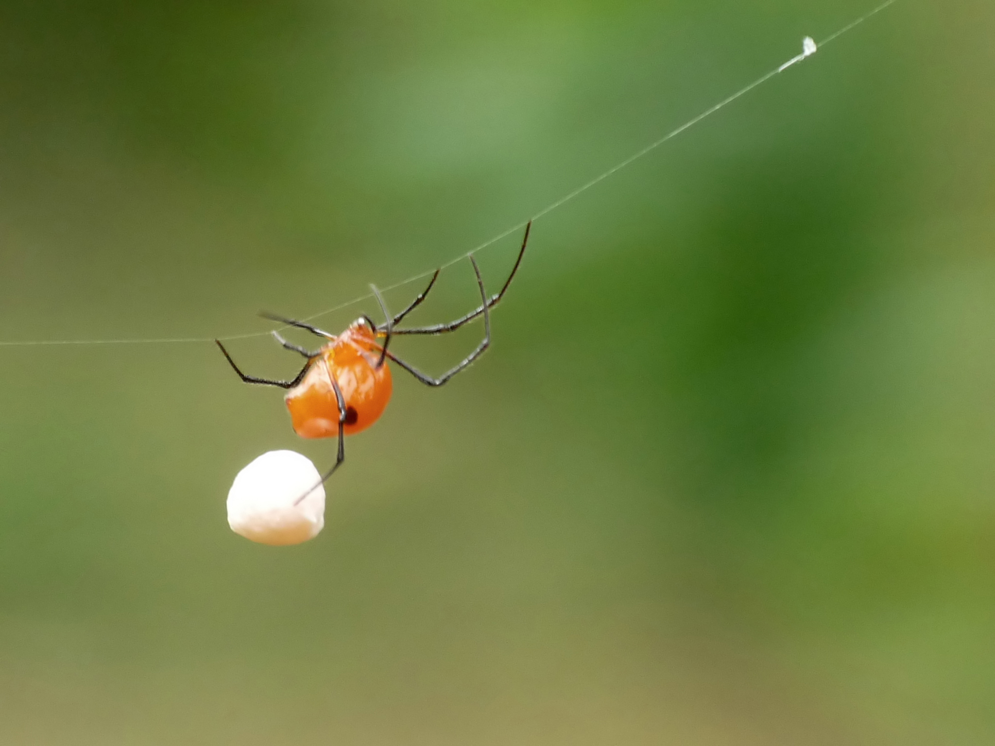 Theridula angula is a cobweb spider, found in many (mostly tropical) parts of the world. Species vary in size from 1 to 3.5 mm in length. The prominent black spots seen on the body can be confused as eyes because it has 2 of these spots symmetrically placed on its shoulders. It has another pair of these spots on the lower end of the abdomen. Here she was moving from one tree to another carrying the egg sac. Theridula spiders are frequently found on bushes or tall grass where they rest on the undersides of leaves near their webs.